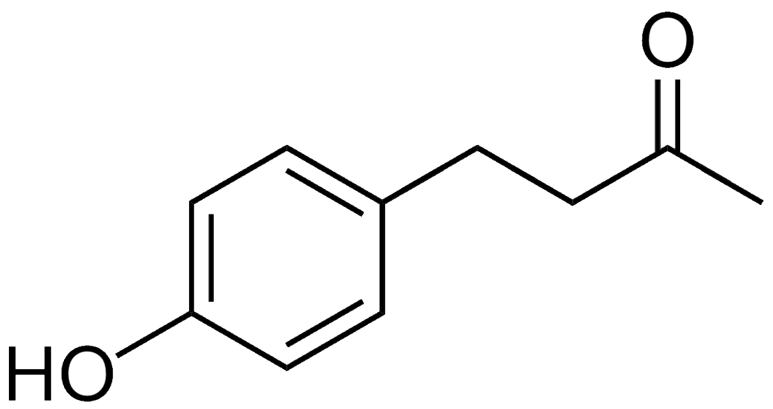 The chemical structure of a raspberry ketone